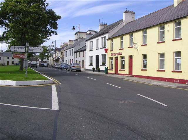 Main Road, Malin Looking NNW